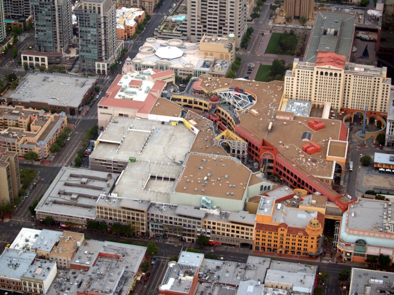 Aerial view of Horton Plaza from 1000 feet. Please acknowledge "Phil Konstantin" as the creator of this photograph.